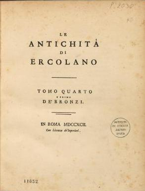 Cover page of a 1792 reprint of Le antichità di Ercolano v4